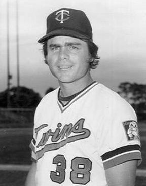 Jack Maloof - 1971 Topps Minor League Player of the Year